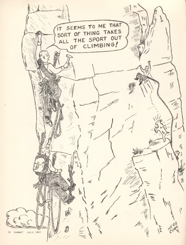 Climbing cartoon contrasting Aid and Free climbing styles